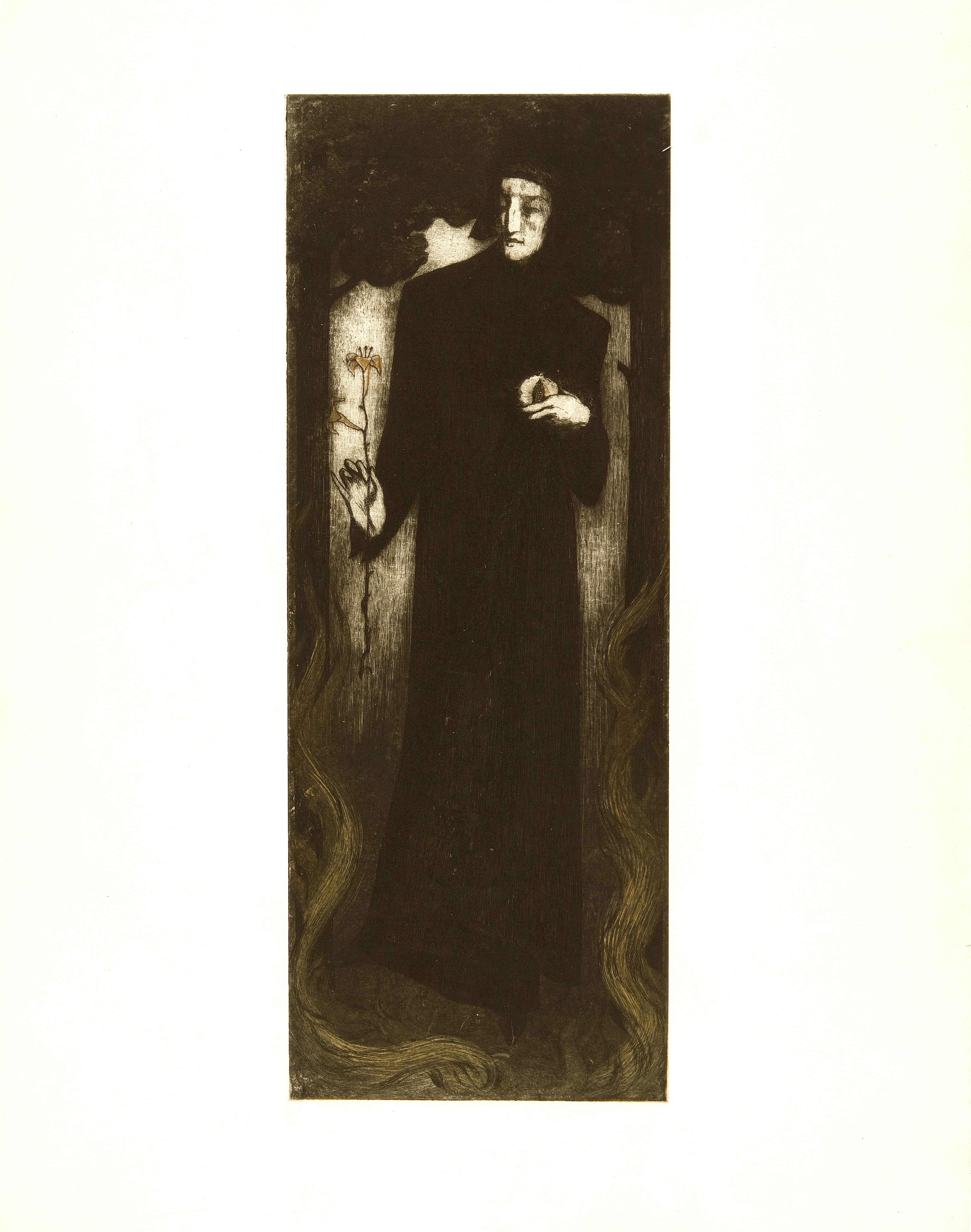 one of 6 etchings of the series "La Vie heureuse de Dante Alighieri" (Koehl E91 to E96). The 12 series printed by the artist were edited by Ambroise Vollard in 1898. Trail proof